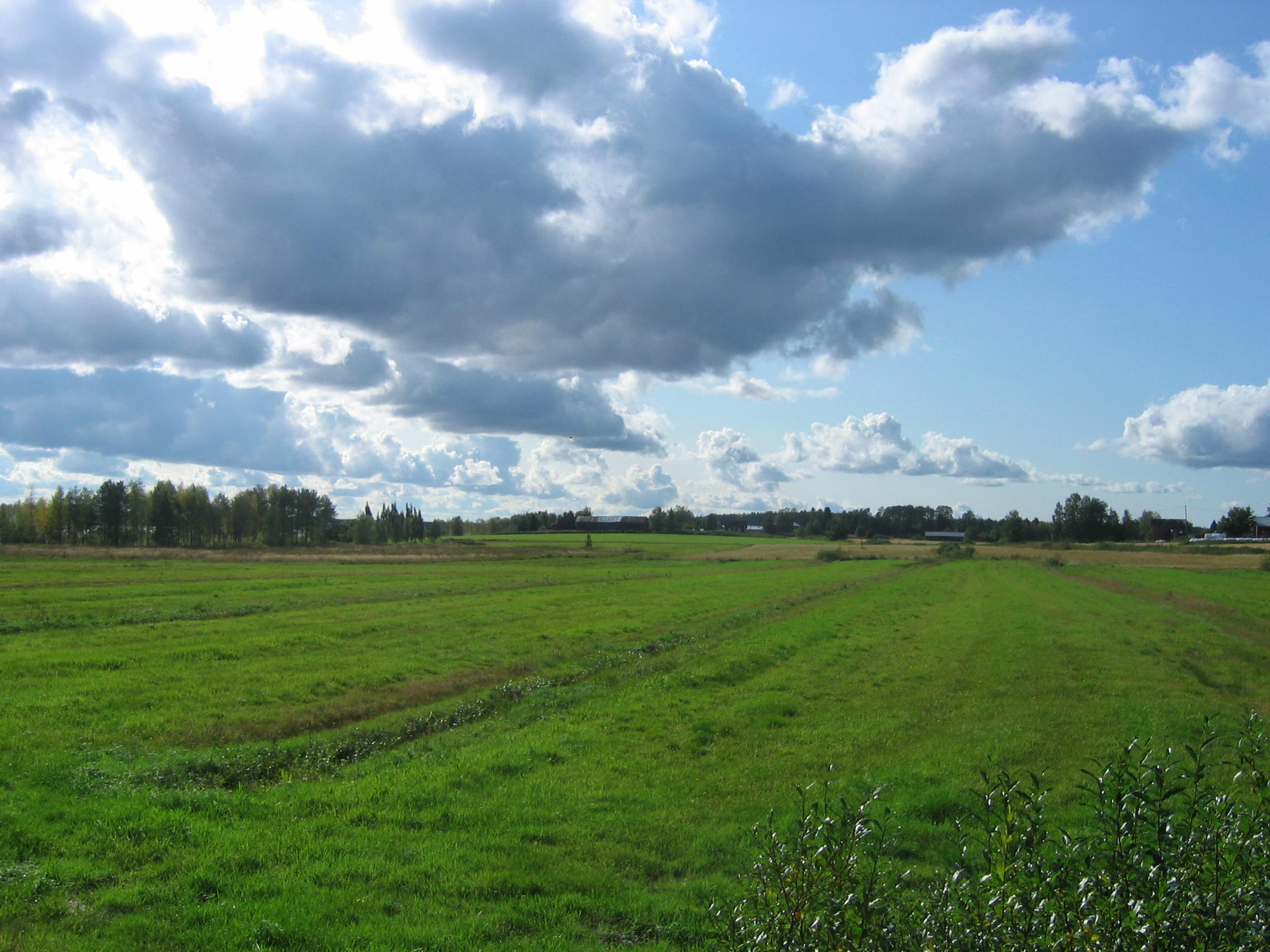 Särkijärvi village in Utajärvi, Finland.